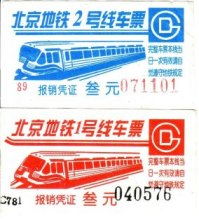 Old paper tickets of Beijing Subway